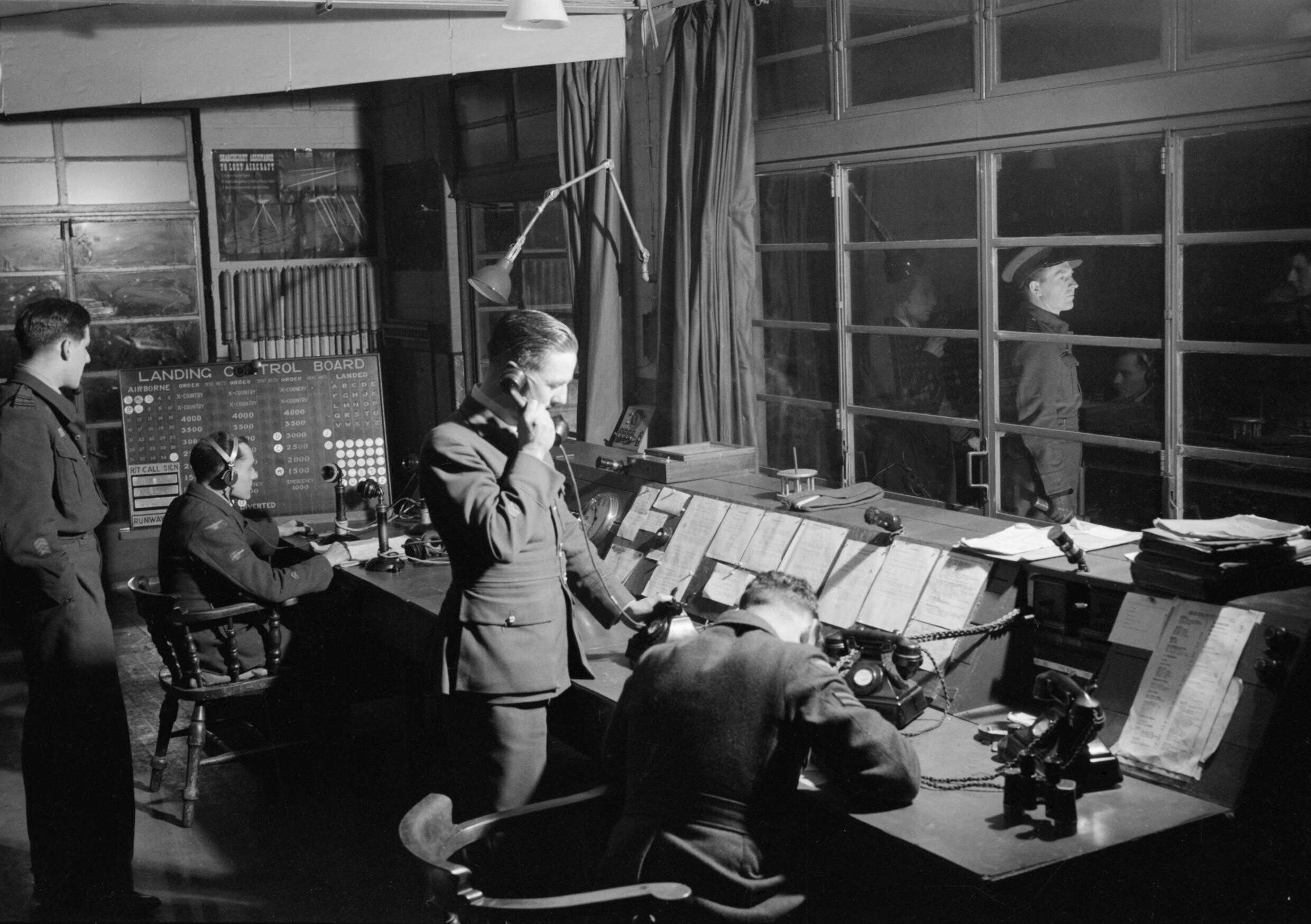 Royal Air Force Bomber Command, 1942-1945. The Officer of the Watch in the Watch Office at Snaith, Yorkshire, guiding Handley Page Halifaxes of No. 51 Squadron RAF back to base after a night raid on Nuremberg. The Station Commander of Snaith, Group Captain N H Fresson, can be seen waiting outside on the balcony of the Control Tower.